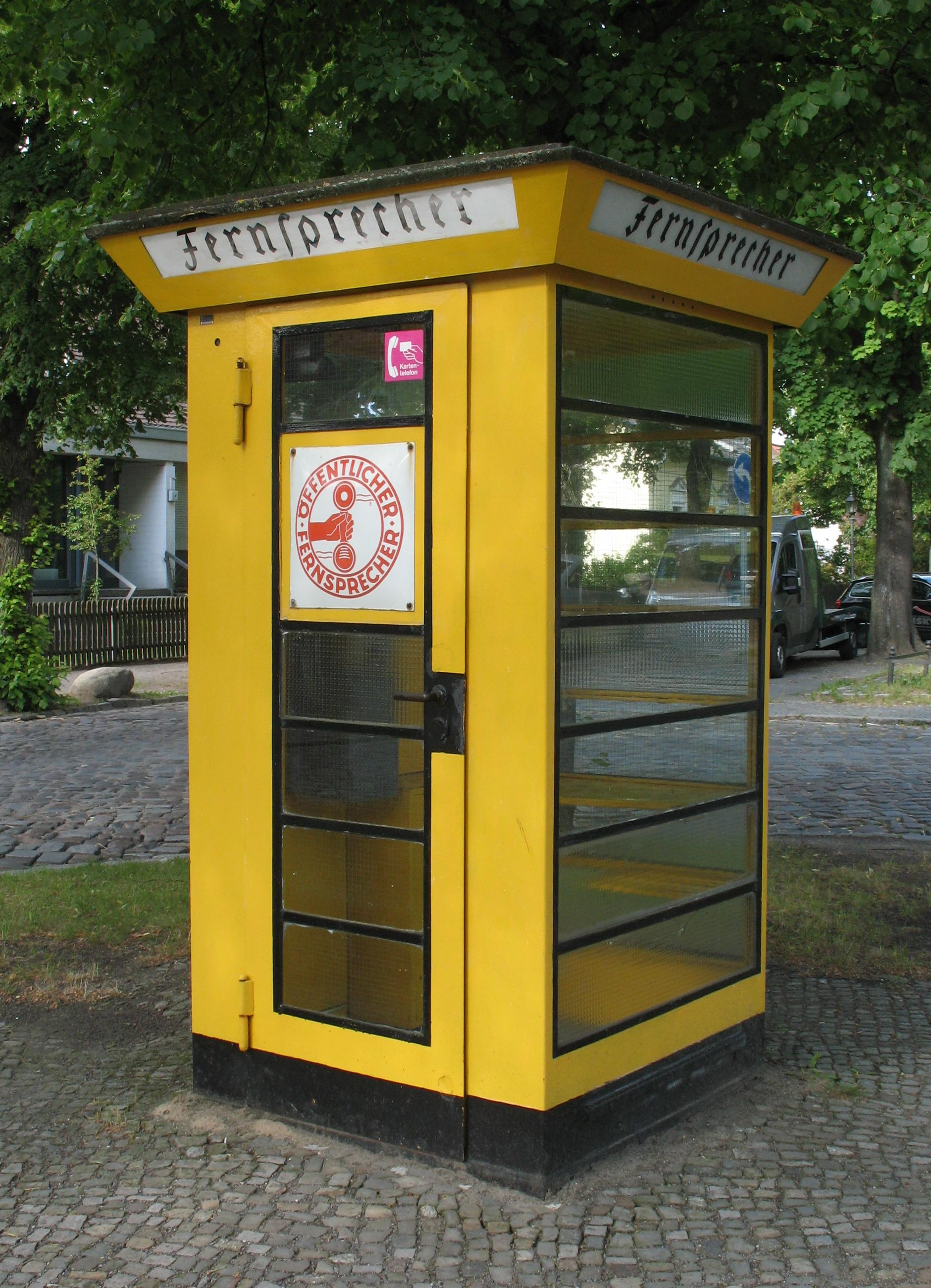 Telephone booth in Berlin-Reinickendorf, Germany